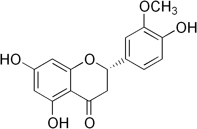 chemical structure of homoeriodictyol